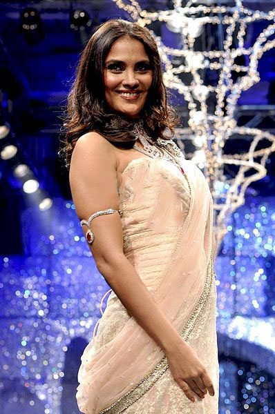 Lara Dutta walks the ramp for IIJW 2011 finale show